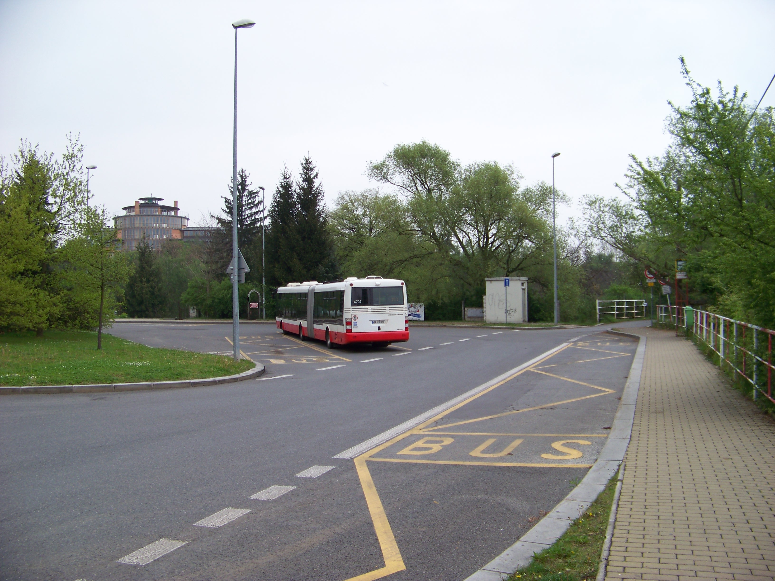 Prague-Kunratice, Czech Republic. K Šeberáku street, bus loop Šeberák.